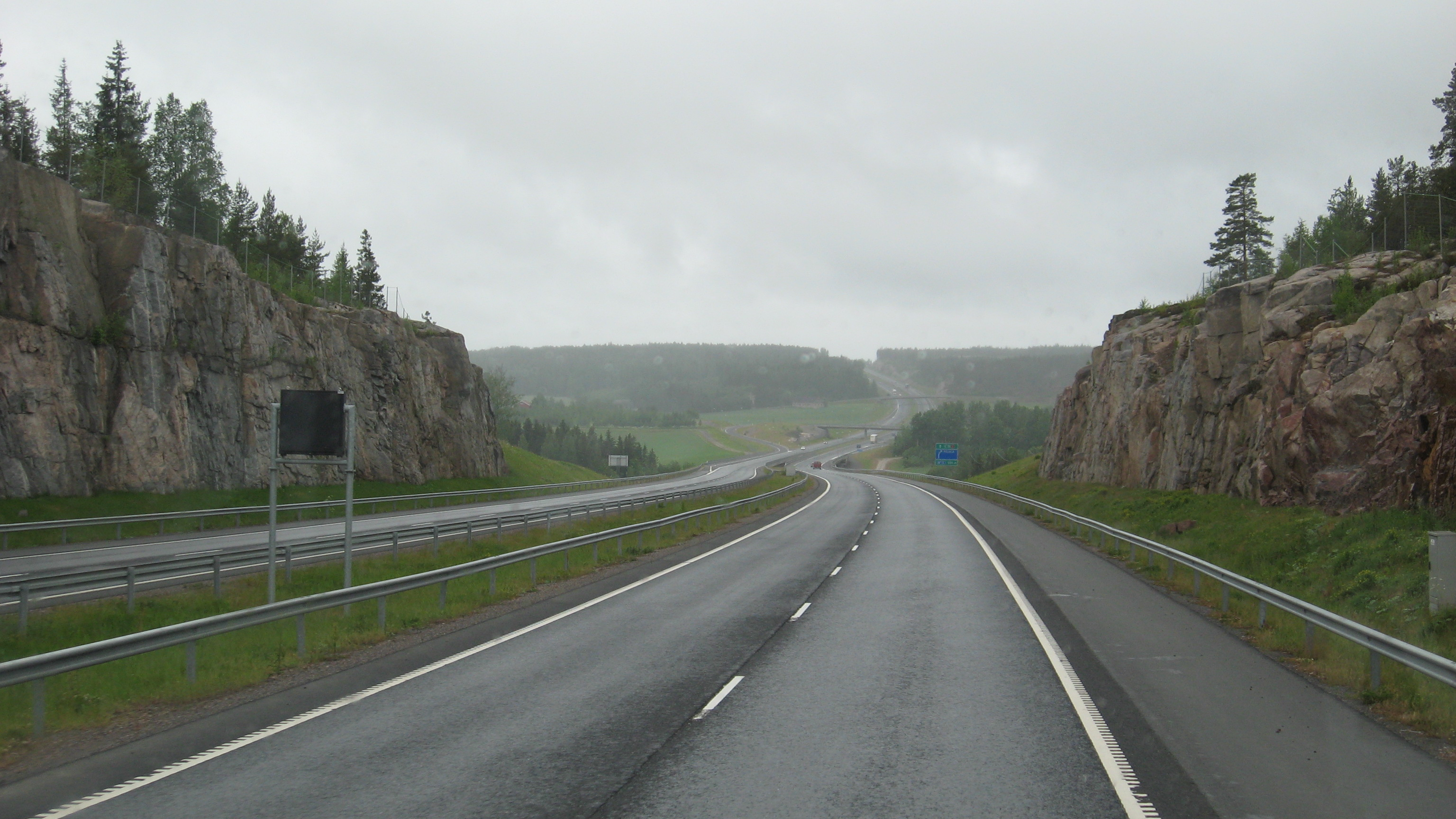 Highway 1 (E18) in Halikko, Finland.